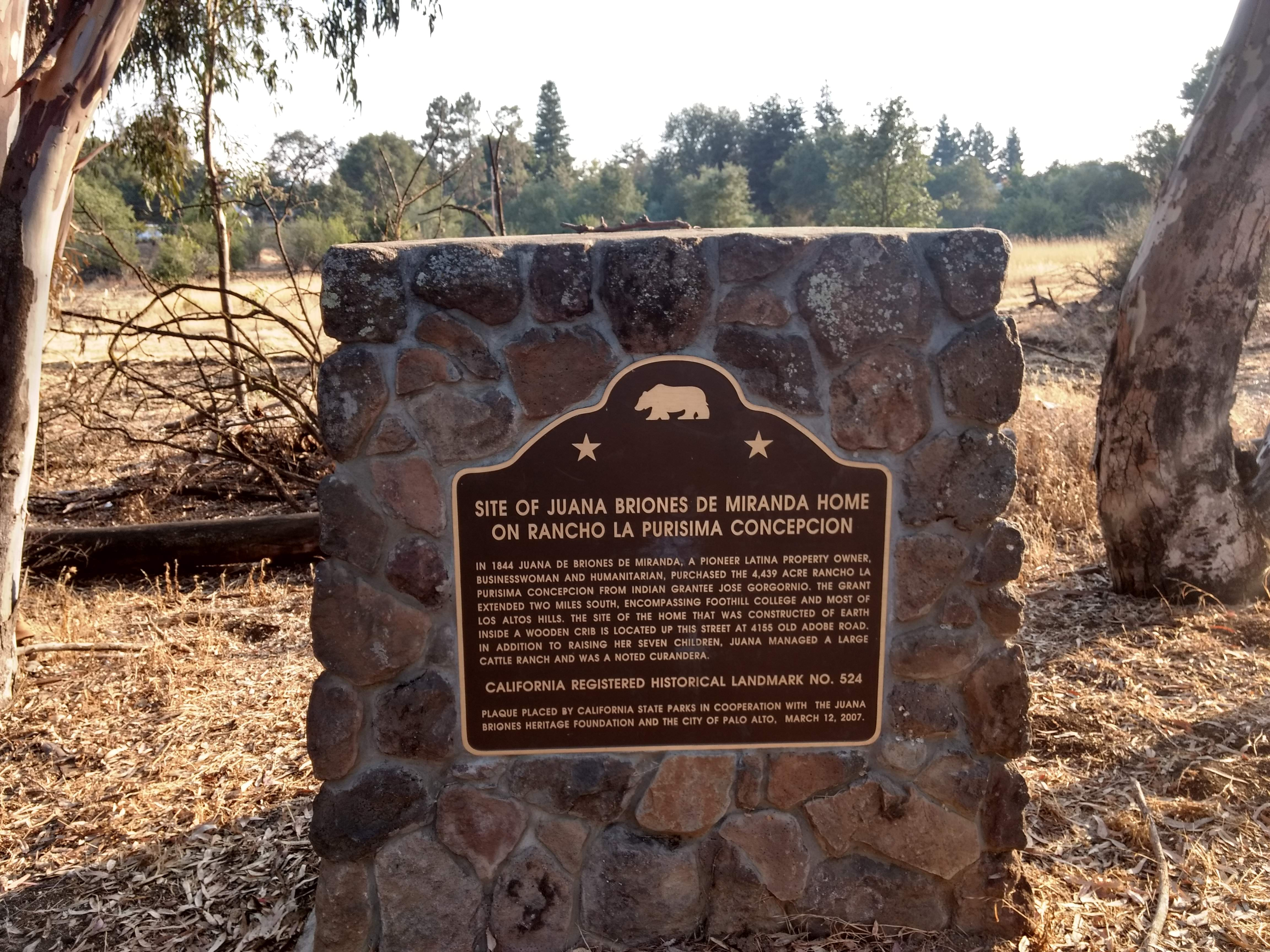 Commemorative plaque at home site of Juana Briones De Miranda. Plaque reads: "Site of Juana Briones De Miranda Home on Rancho La Purisima Concepcion In 1844 Juana De Briones De Miranda, a pioneer latina property owner, businesswoman and humanitarian, puchased the 4,439 acre Rancho la Purisima Concepcion from indian grantee Jose Gorgornio. The grant extended two miles south, encompassing Foothill COllege and most of Los Altos Hills. The site of the home that was constructed of earth inside a wooden crib is located up this street at 4155 Old Adobe Road. In addition to raising her seven children, Juana managed a large cattle ranch and was a noted curandera. CALIFORNIA REGISTERED HISTORICAL LANDMARK NO. 524 Plaque placed by California State Parks in cooperation with the Juana Briones Heritage Foundation and the City of Palo Alto, March 12, 2007."